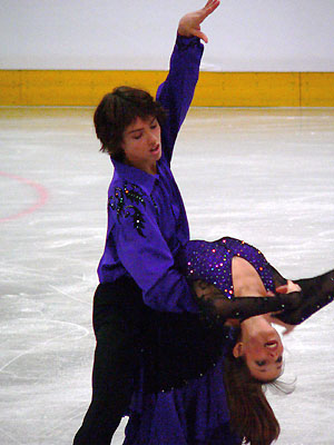 Joanna Lenko and Mitchell Islam during their free dance at the 2006 Junior Grand Prix event in The Hague, Netherlands